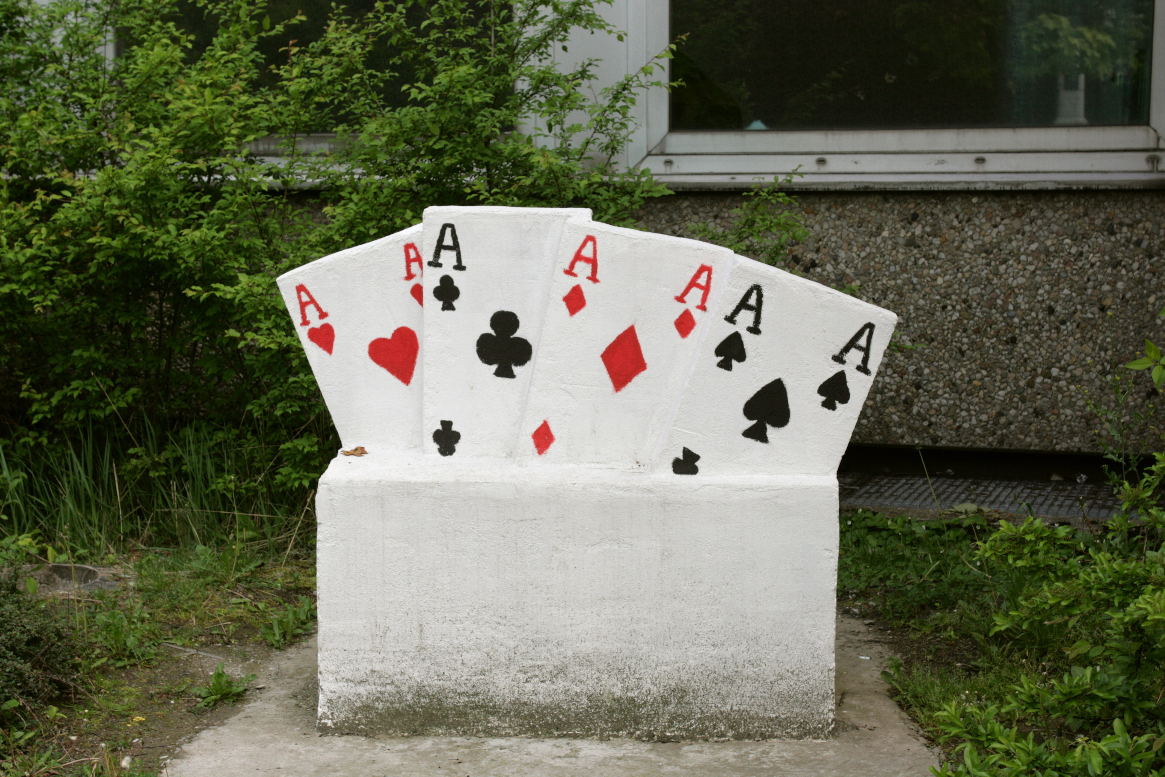 Four aces, sculpture at Hattingen, Germany